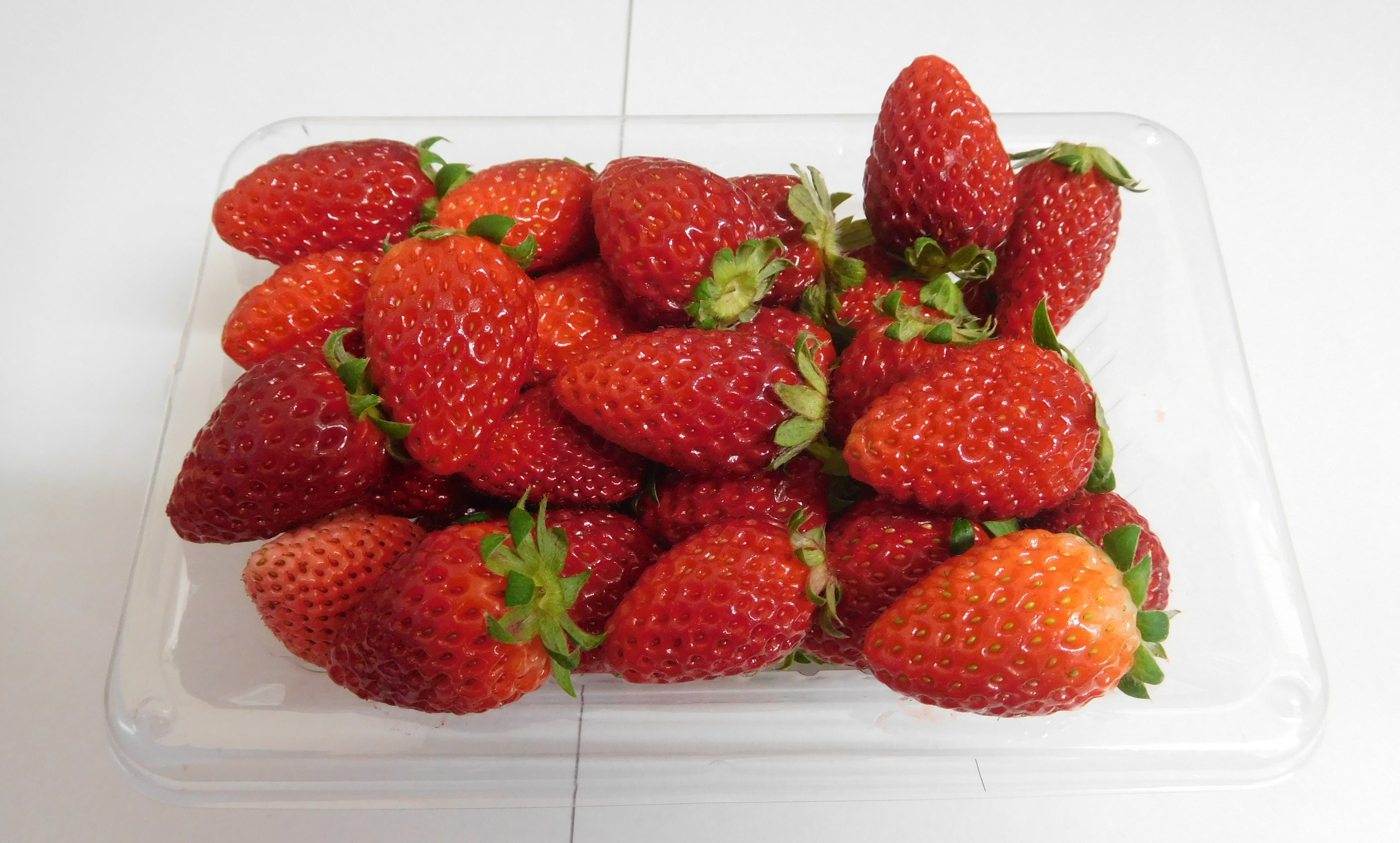 These are strawberries "Ibarakiss". Ibarakiss is a variety created in Ibaraki prefecture, Japan. These Ibarakiss was produced by a farmers' group "Takumi no Kai" in Omitama, Ibaraki, Japan.